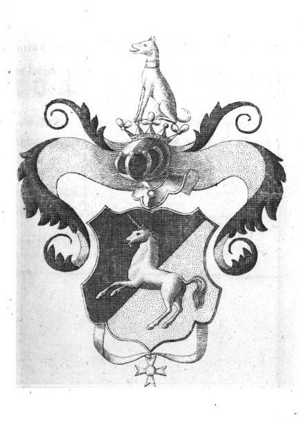 Coat of arms of the Bavarain/Saxon noble family von Ammon